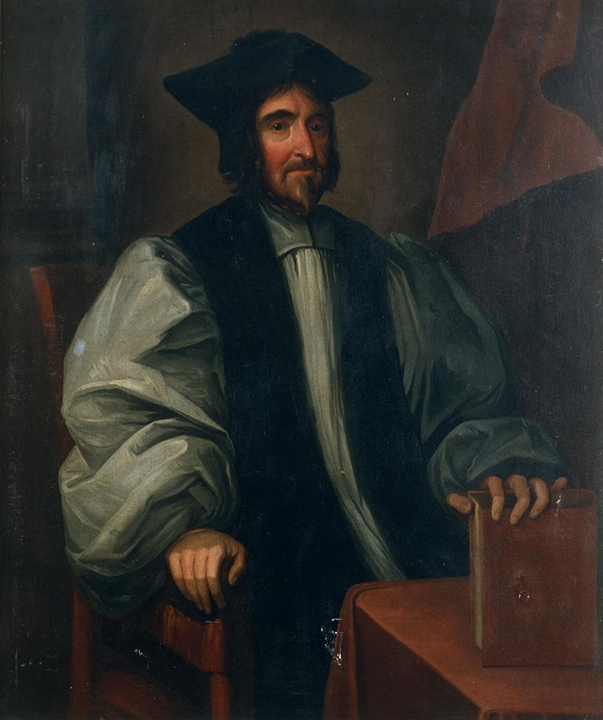 A painting from the Framed Works of Art collection at the National Library of wales.